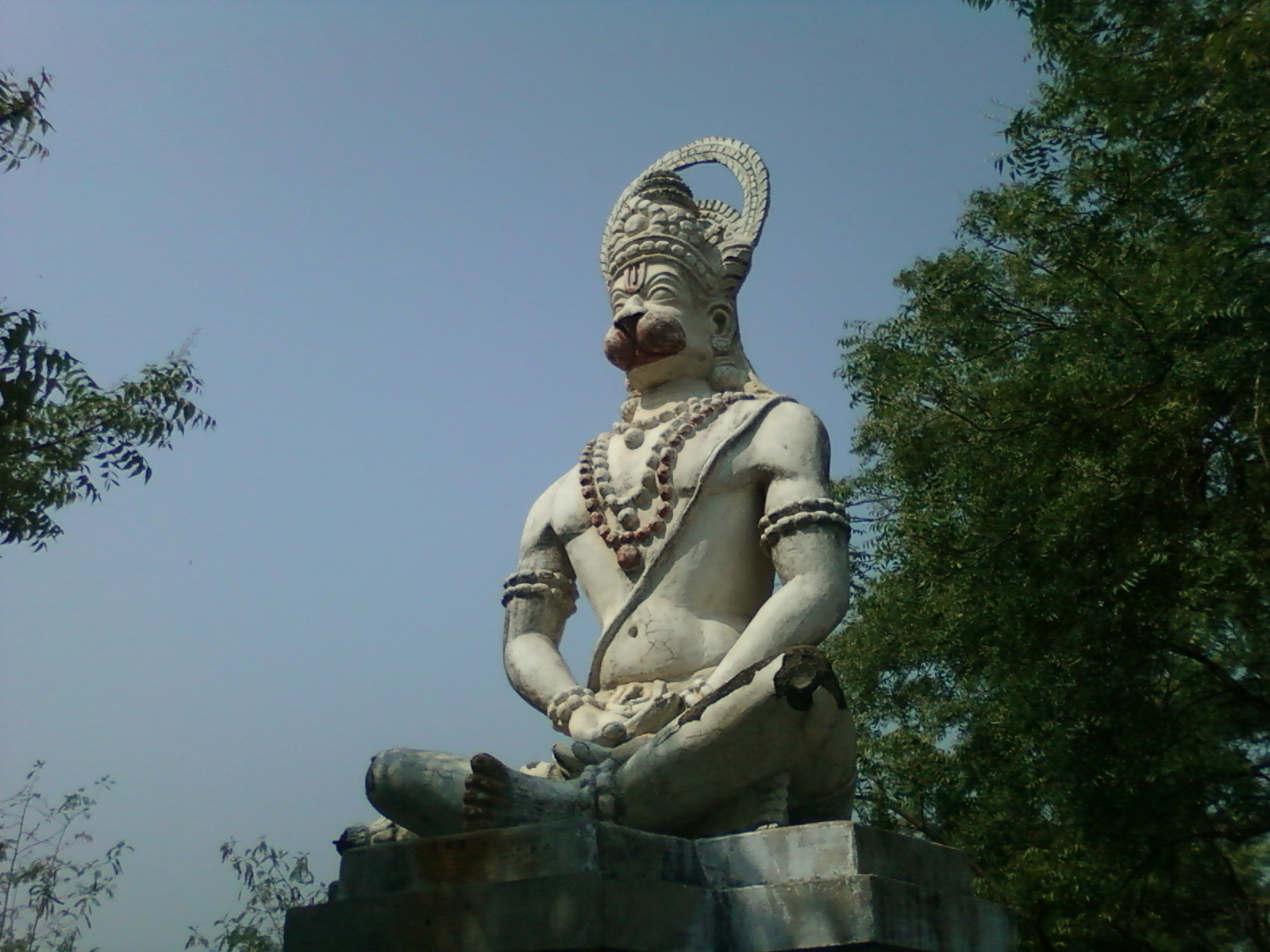 Meditation posture statue of lord hanuman at a hillock in Thagarapuvalasa, Visakhapatnam District